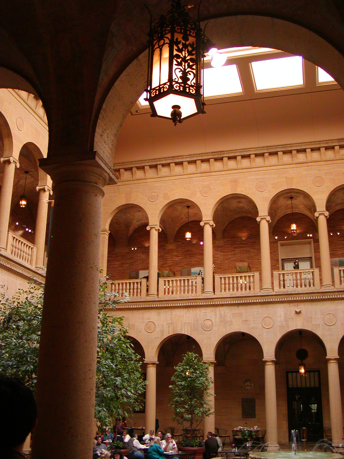 Author: User:Manop Nelson-Atkins Museum of Art at Kansas City